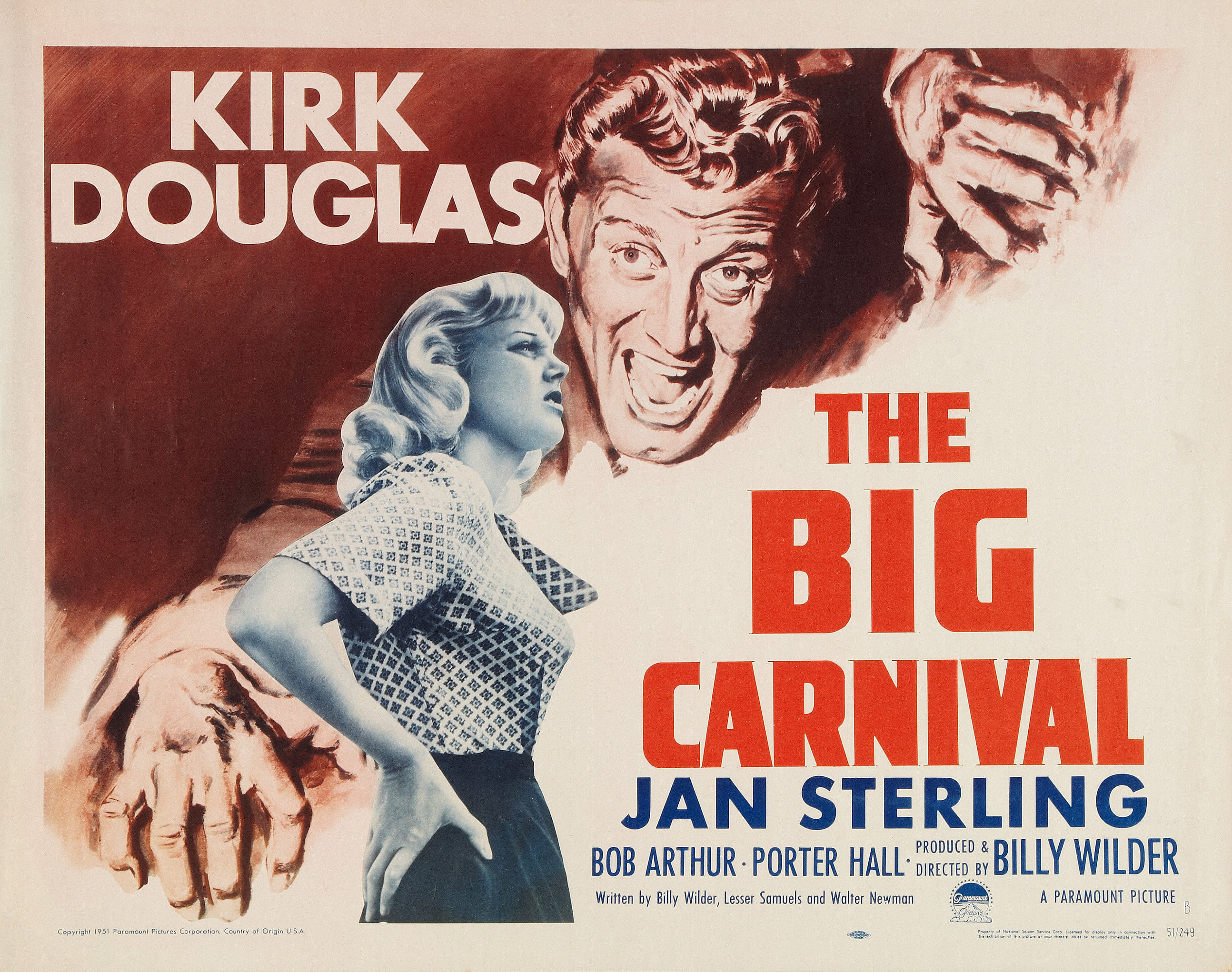 "Style B" half-sheet poster for the 1951 film Ace in the Hole, displaying the alternate title The Big Carnival.